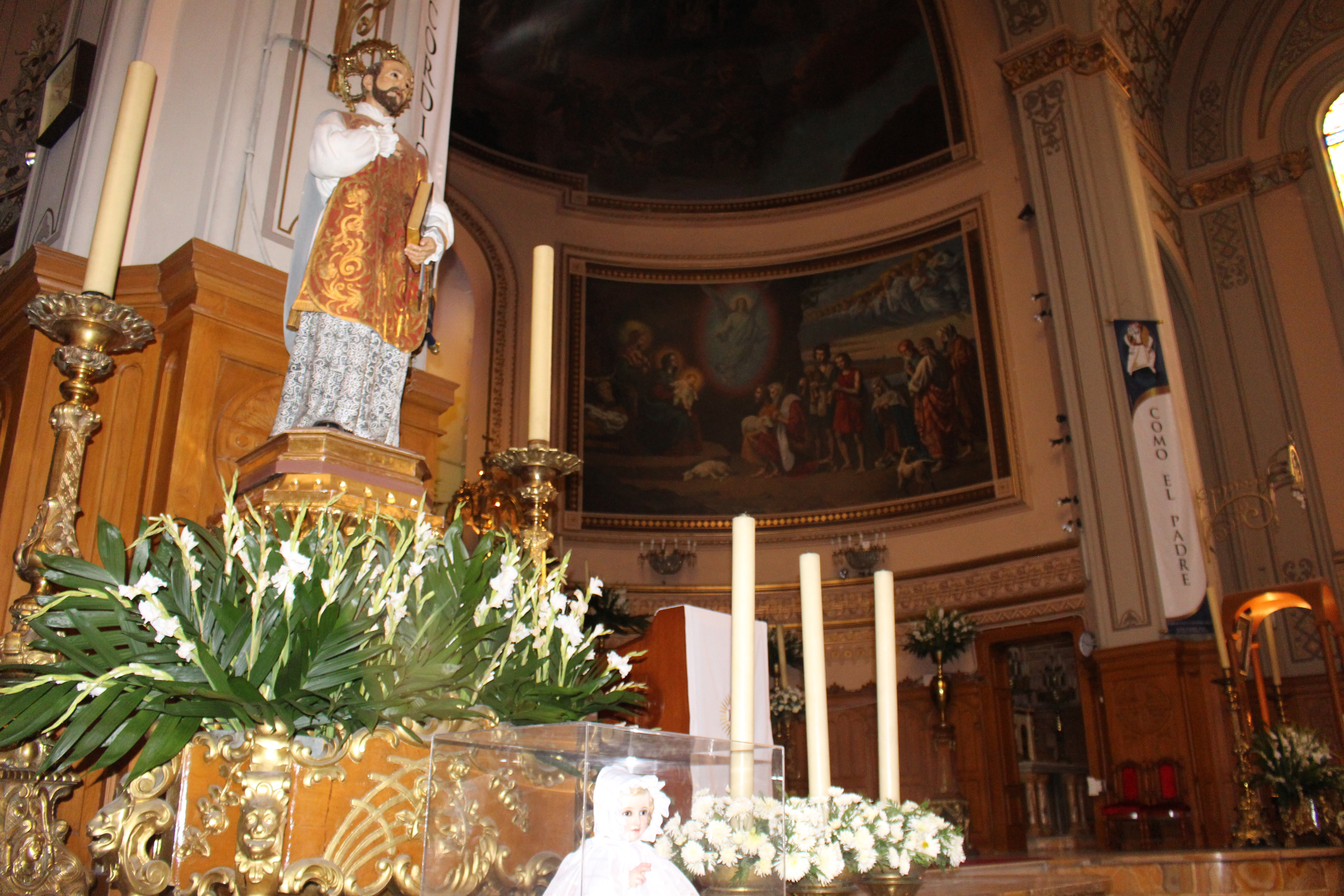 From the lateral sanctuary we can see a sculpture of San Ignacio, below there´s a chandelier and at the background we can appreciate one of the murals in the central Altar of the Sagrada Familia Church, located in colonia roma, Mexico City.